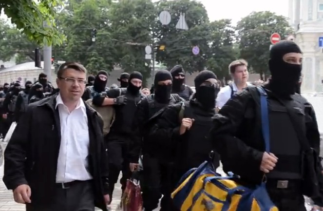 Oleh Odnoroshenko (at left), PR officer of the special police regiment «Azov», walking with «Azov» volunteers on the street in Kiev.